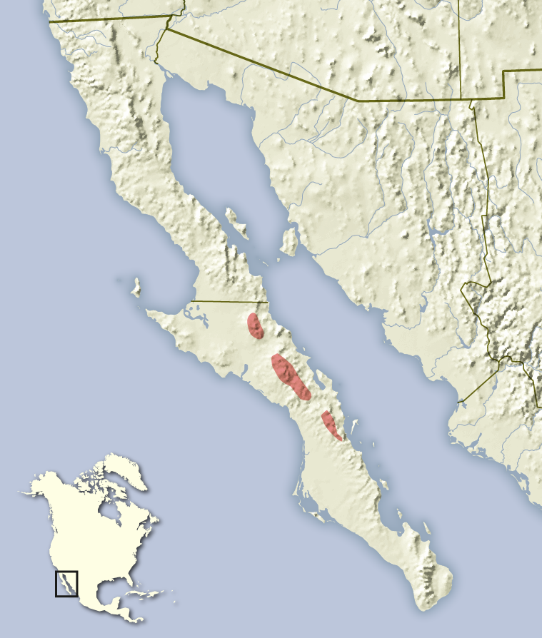 Distribution map of the Baja California rock squirrel